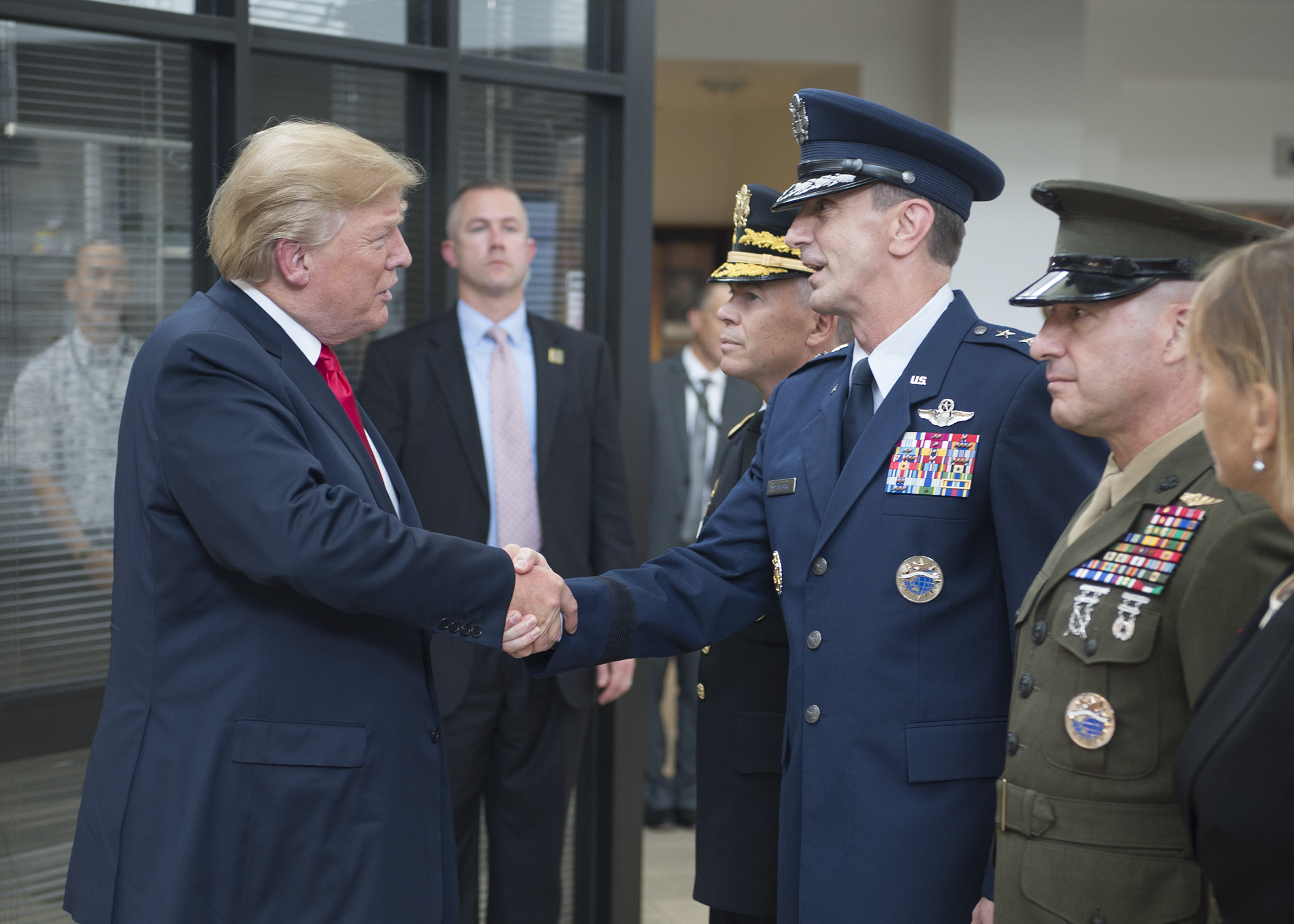 171103-N-WY954-041 CAMP H.M. SMITH, Hawaii (Nov. 3, 2017)— U.S. Pacific Command (USPACOM) Chief of Staff Maj. Gen. Kevin B. Schneider greets President Donald J. Trump during an honors ceremony at USPACOM headquarters. The President is in Hawaii to receive a briefing from USPACOM prior to traveling to Japan, the Republic of Korea, China, Vietnam and the Philippines from November 3-14. During the trip the President will underscore his commitment to longstanding U.S. alliances and partnerships, and reaffirm U.S. leadership in promoting a free and open Indo-Asia-Pacific region. The president’s engagements will strengthen the international resolve to confront the North Korean threat and ensure the complete, verifiable and irreversible denuclearization of the Korean Peninsula. (U.S. Navy photo by Mass Communication Specialist 2nd Class Robin W. Peak/Released)